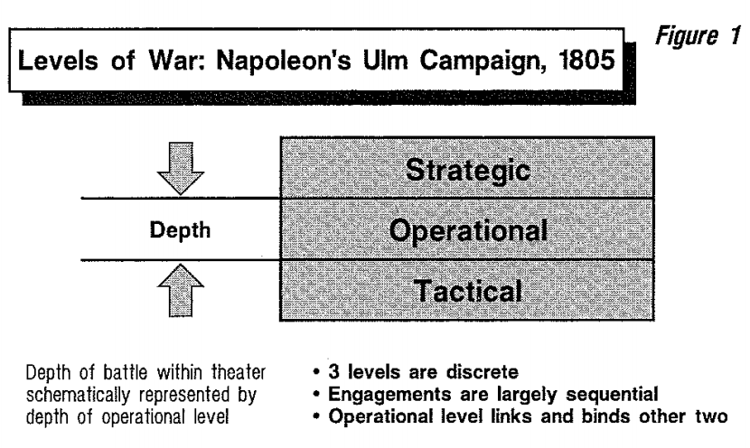 Levels of War – Napoleon's Ulm Campaign, 1805. Interpretation of Napoleon's conduct of the Ulm campaign may be illustrated visually in terms of three discrete levels of war, where depth and simultaneity of operations become the chief defining variables (with operational tempo a close correlate). In this setting, Napoleon, who was both French head-of-state and army commander-in-chief, translated his vision of the national strategic aim into the practical application of force on a theater-wide basis. Strategically focused, sequential operations and engagements culminated finally in a decisive blow to destroy the enemy's armed might. Unsurprisingly, the synergistic effect of Napoleon 's campaign strategy became the organizing imperative of the great offensive campaigns of the late 19th and early 20th centuries. Analyses of subsequent Prussian-German campaign strategy in 1866, 1870, 1914, and 1940, for example, revealed that the intent of the Prussian and German opening perations was to repeat Napoleon's achievement in the VIm campaign of 1805. They sought to bring on a battle of annihilation by inflicting a strategic defeat on the enemy which his tactical measures could not remedy. For that matter, later Soviet concepts of theaterwide offensive operations were also logical successors in a series of attempts to replicate Napoleon's victory on an even larger scale.